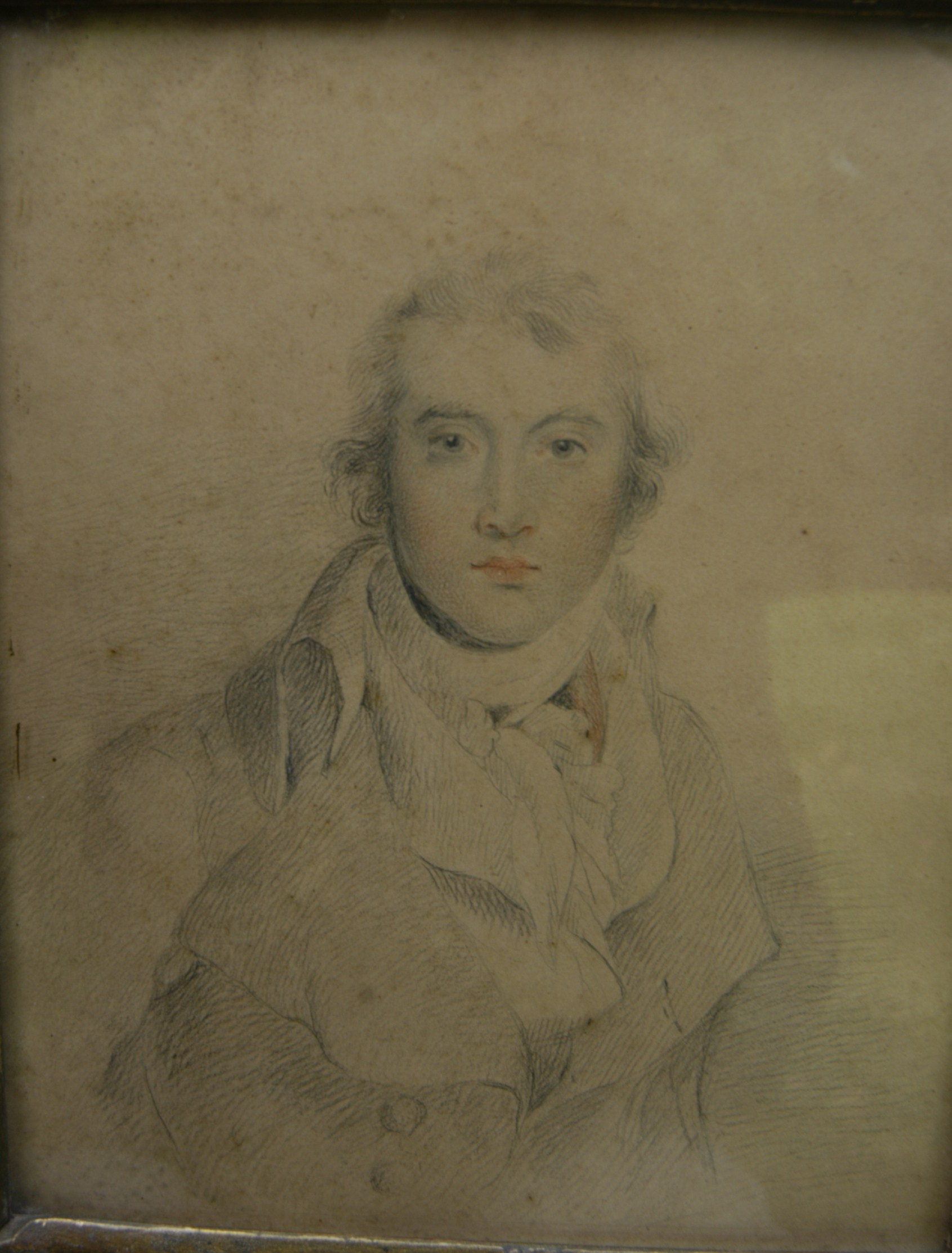 photo taken by me (Rodolph (talk) 21:45, 1 September 2013 (UTC)) of a drawing of Thomas Read Kemp by Sir Thomas Lawrence.